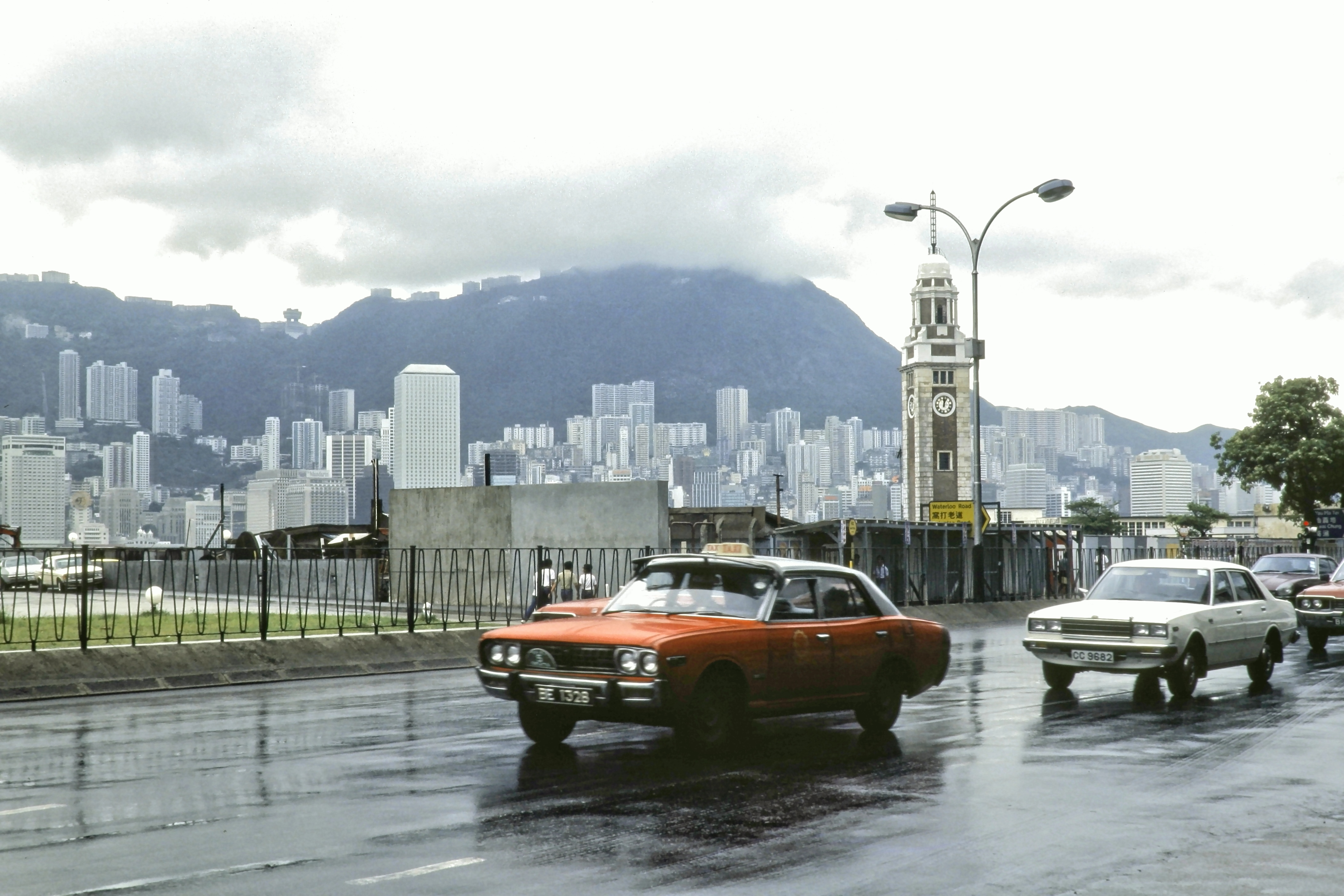 View from Salisbury Road towards former Kowloon railway Station (only clocktower left) and Hong Kong Skyline